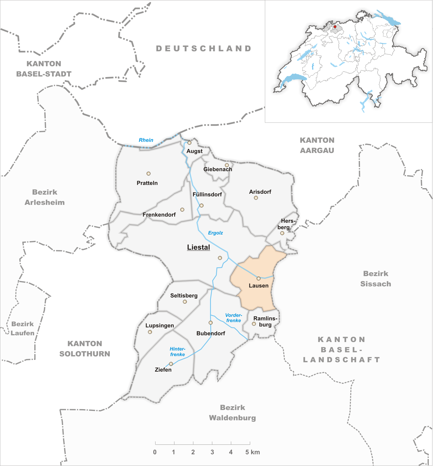 Municipality Lausen